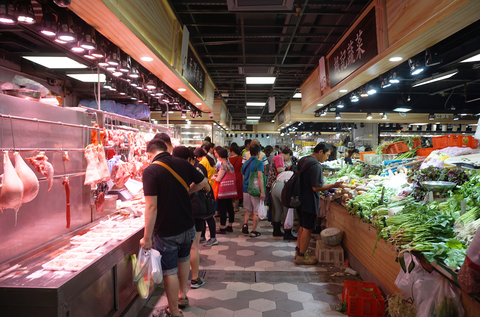 Tin Chak Market in Tin Shui Wai, Hong Kong.